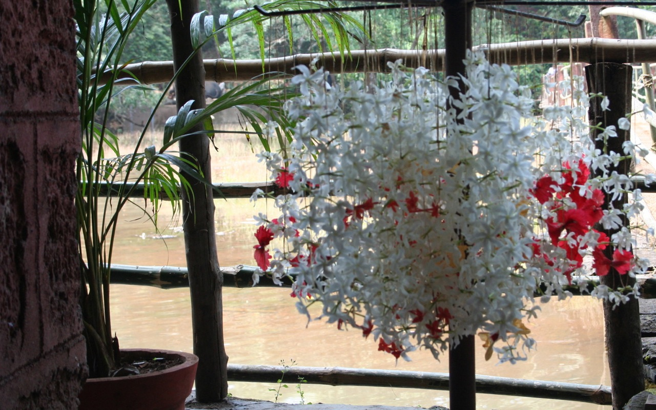 Tropical Spice Farm, Goa. Detour on the Syncretism tour, Oct '11.